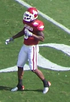 Matterral Richardson playing cornerback for the Arkansas Razorbacks in 2006.